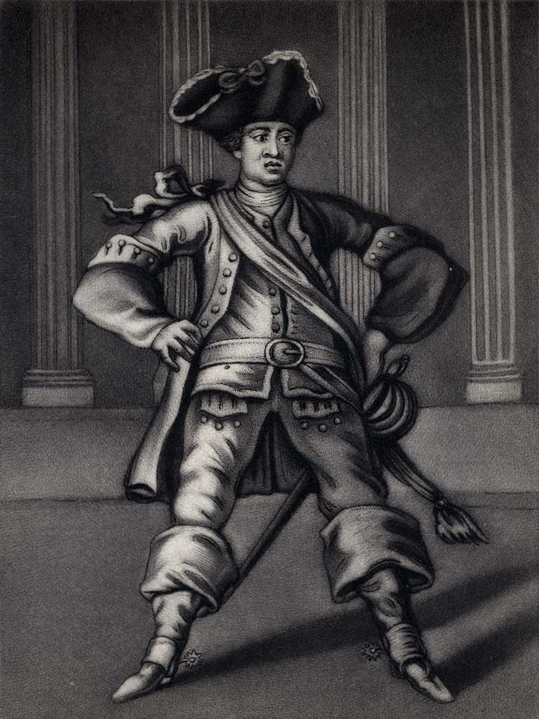 A mezzotint (3.125 x 4.25 inches) of Theophilus Cibber as Ancient Pistol in Shakespeare's Henry V: this caricature of Cibber is seen in John Laguerre's "The Stage Mutiny" etching (1733) and reproduced as a frontispiece for Theophilus Cibber, to David Garrick, Esq; with Dissertations on Theatrical Subjects (1759) printed in London for W. Reeves and J. Phipps.[1]